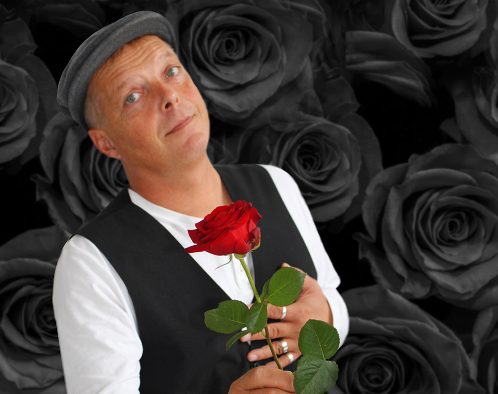 Poster of Tour "Charmeoffensive" of german stand-up comedian LinkMichel (2018)